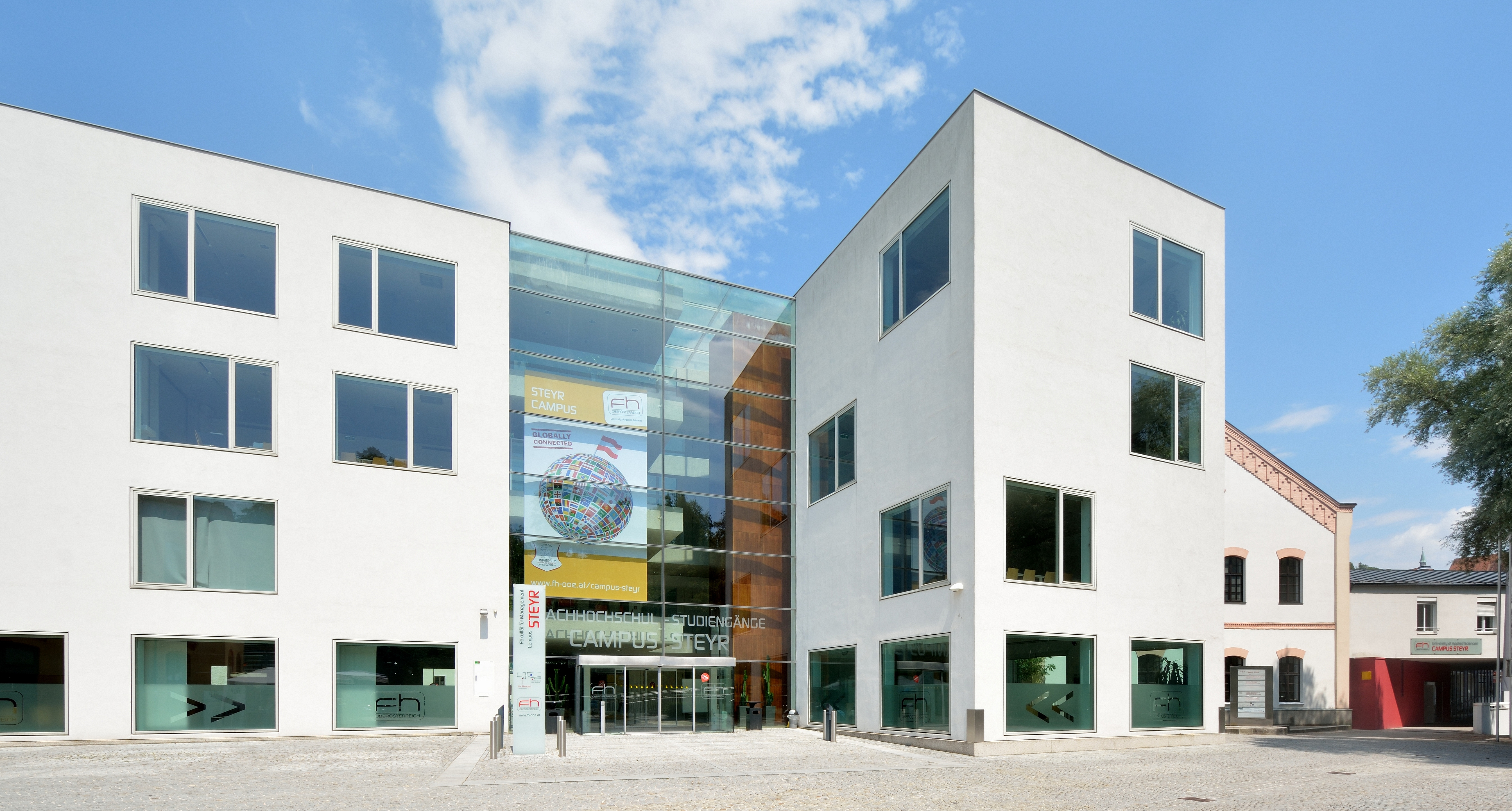 University of Applied Sciences Upper Austria, Campus Steyr